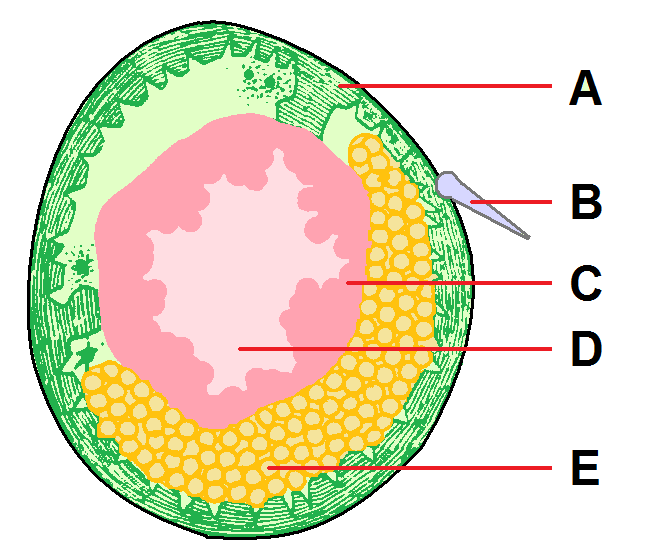 Pycnogonida anatomy